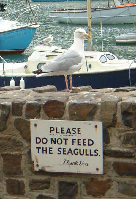 Do not feed the Seagulls. Cropped selection from an original photograph by Amos Wolfe taken 4th February 2001. This photograph was taken at Ilfracombe and shows a Herring Gull and a sign warning visitors not to feed this common bird.